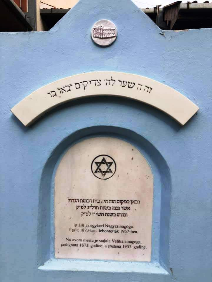 Neologic synagogue memorial in Senta. The synagogue was built in 1873 and was demolished in 1957.